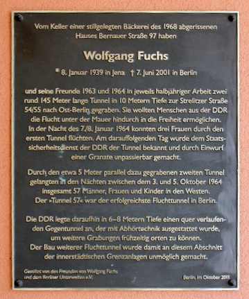 Memorial plaque, Wolfgang Fuchs, Bernauer Straße 97, Berlin-Gesundbrunnen, Germany